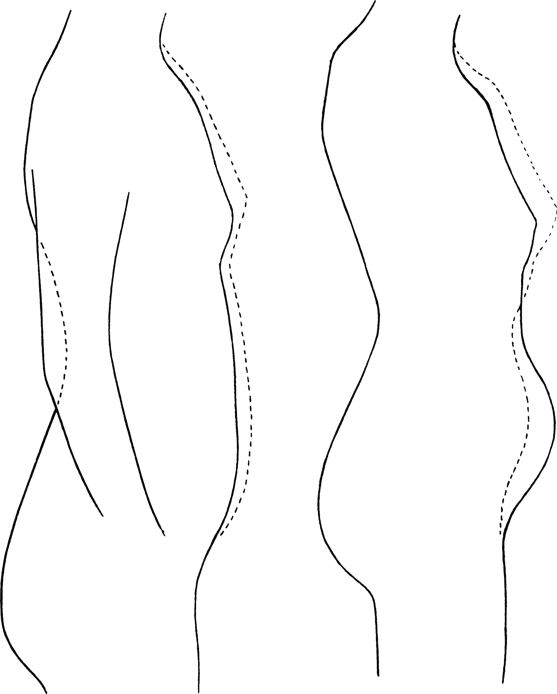 A man's breathing, and a woman's breathing in corset.